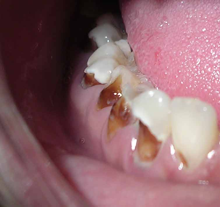 This is a case of suspected meth mouth with a closeup shot of the lower right posterior teeth. This patient, who will remain anonymous, was treated at the University of Tennessee Health Science Center: College of Dentistry in Memphis, Tennessee.